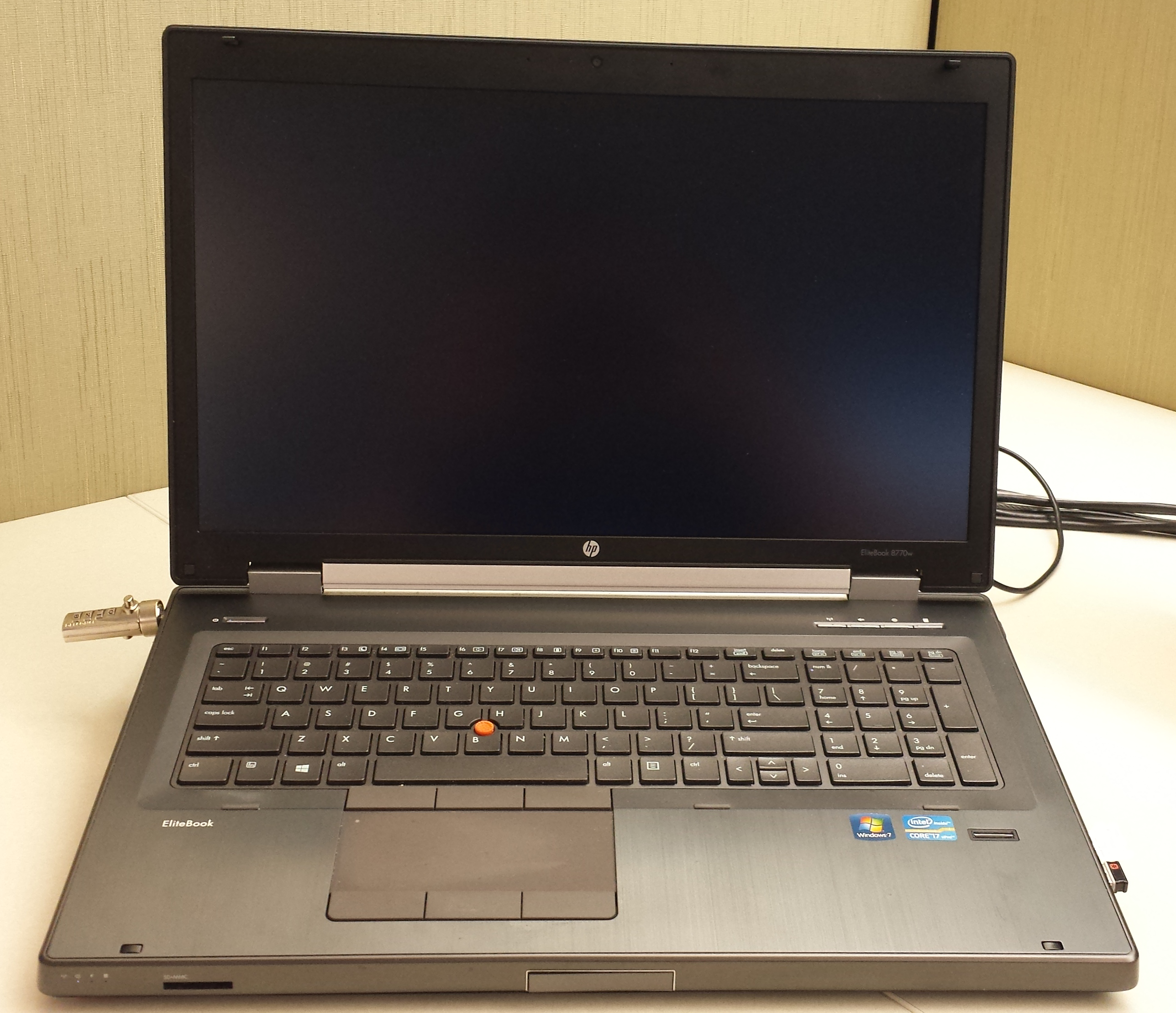 An HP Elitebook 8770w laptop, open, mounted in a dock.